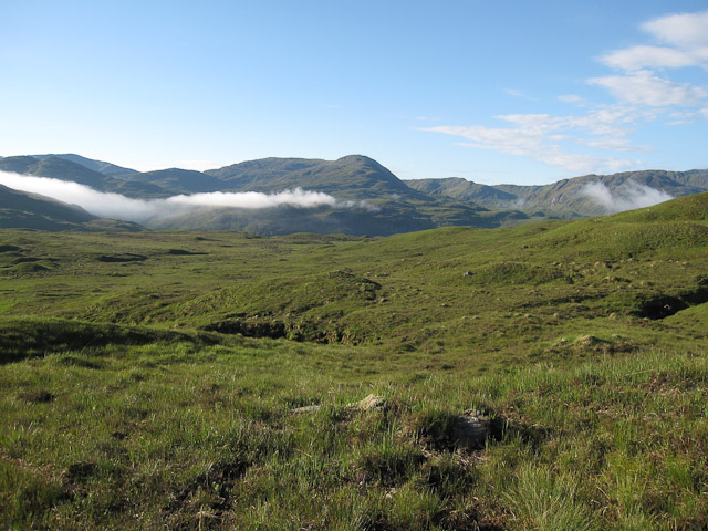 Attadale Forest Early morning cloud clearing out of the valleys. Forest can mean hunting area, hence the forest without any trees.